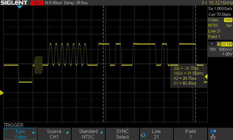 Closed caption text transmitted as digital data on Line 21 of Field 1 of an analog NTSC television signal vertical retrace interval. Format of an EIA 608 caption is the line synchronization pulse, a color burst of 9 cycles of 3.58 MHZ , a run-in signal of 503 Khz, a start pulse, then two 7-bit characters with odd parity. The vertical retrace interval can carry other kinds of data, and sometimes caption data is present on other lines. Additional data can be carried on Line 21 of Field 2. (Ref: E.P. J. Tozer, Broadcast Engineer's Reference Book, CRC Press, 2012 ISBN 1136024182, page 226 ) The caption signal is regenerated by a set-top box for use by analog television recievers, using data encoded in the digital television broadcast.